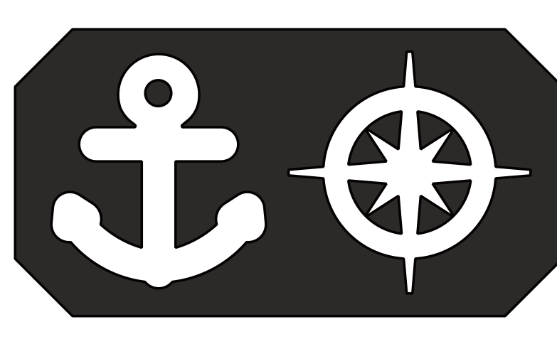 Version of hallmark used on items assayed and stamped in India by subsidiary of Birmingham Assay Office. This hallmark is valid in the UK.